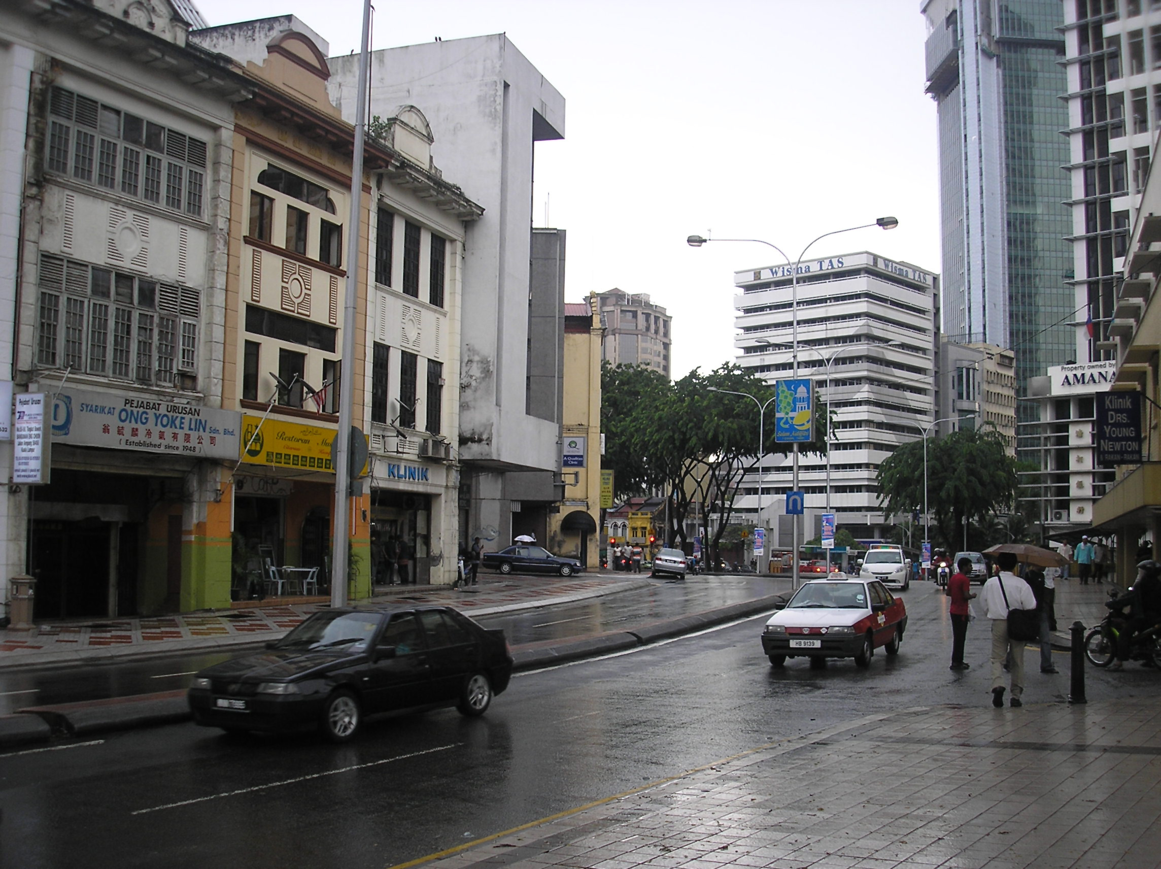 The southern end of Jalan Ampang (Ampang Road), between Jalan Munshi Abdullah (Munshi Abdullah Road) and Jalan Melaka (previously Malacca Street), at the border of City Centre and the Golden Triangle, in Kuala Lumpur, Malaysia, as seen towards the southwest.